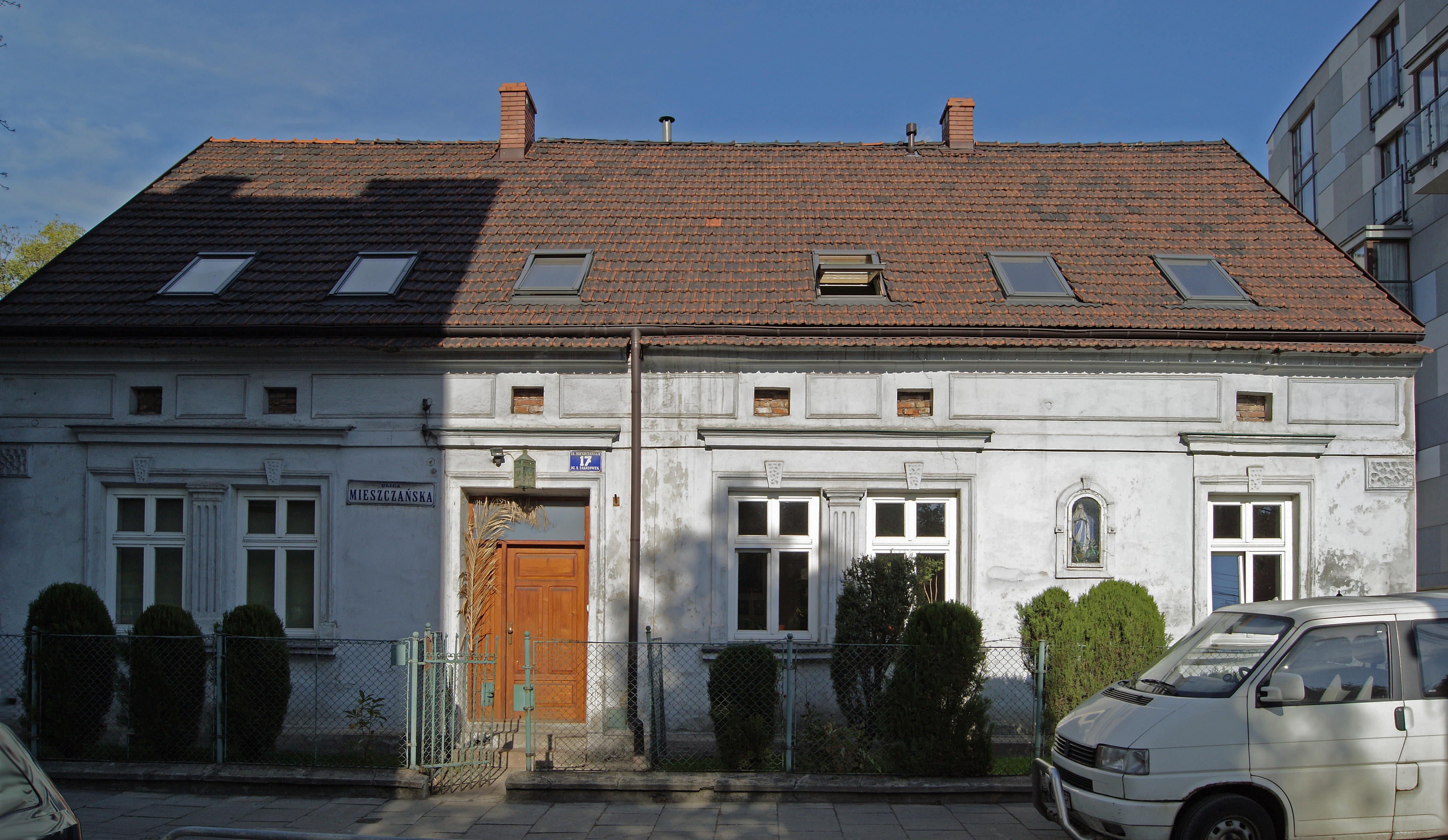 Old house, 17 Mieszczanska street, Zakrzówek, Krakow, Poland